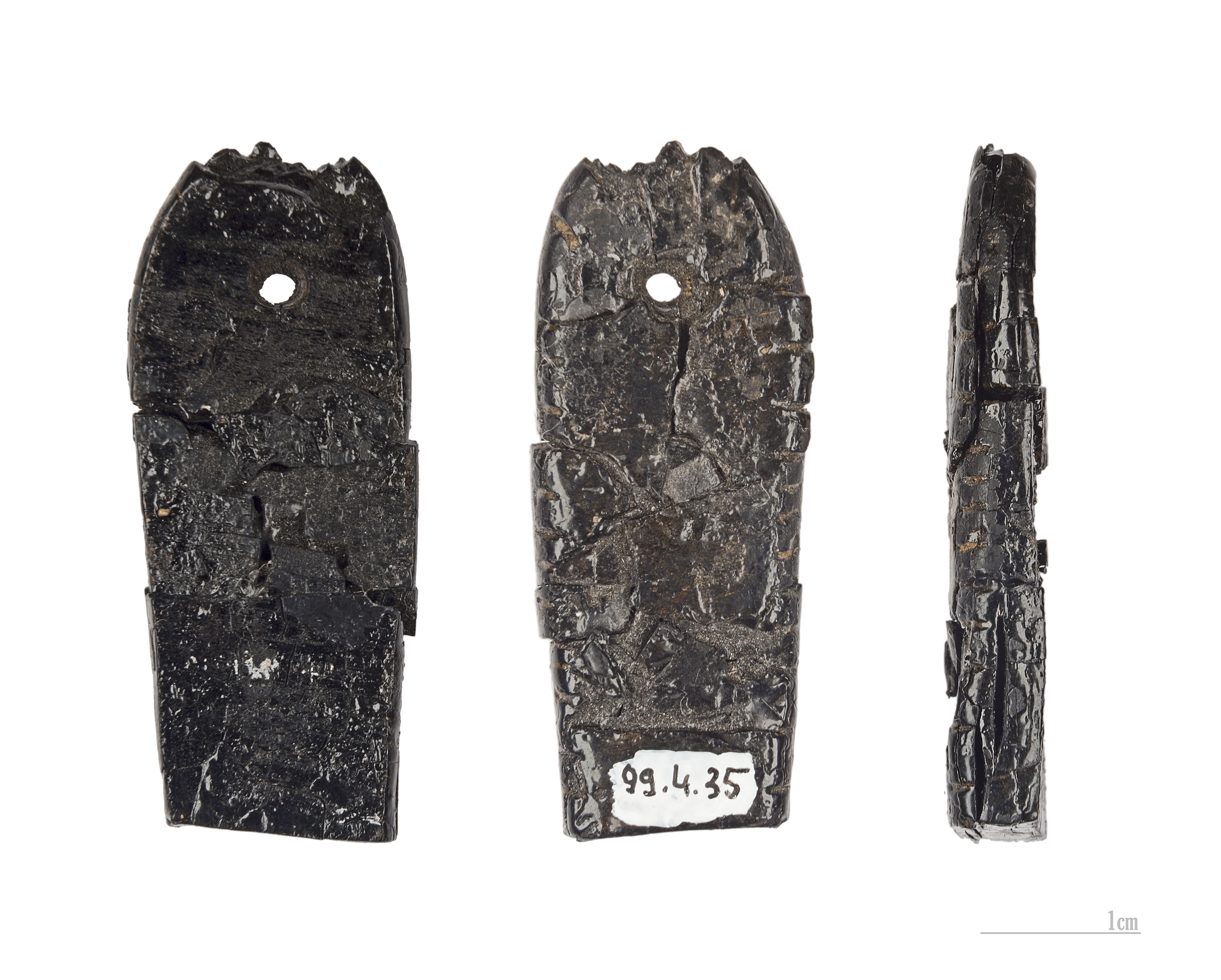 Prehistoric pendant, in lignite. Three views of the same object. Stage : Magdalenian (to 17 000 from 10 000 Before the Current Era) Locality : Marsoulas cave, Marsoulas, Haute-Garonne France. Muséum of Toulouse MHNT.PRE.2012.0.6.95